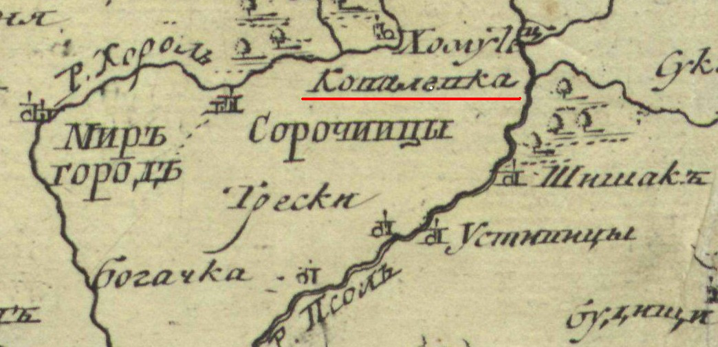 Kovalivka on the map in 1745